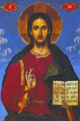 Christ Icon in Osenovo Archagel Michael Church.